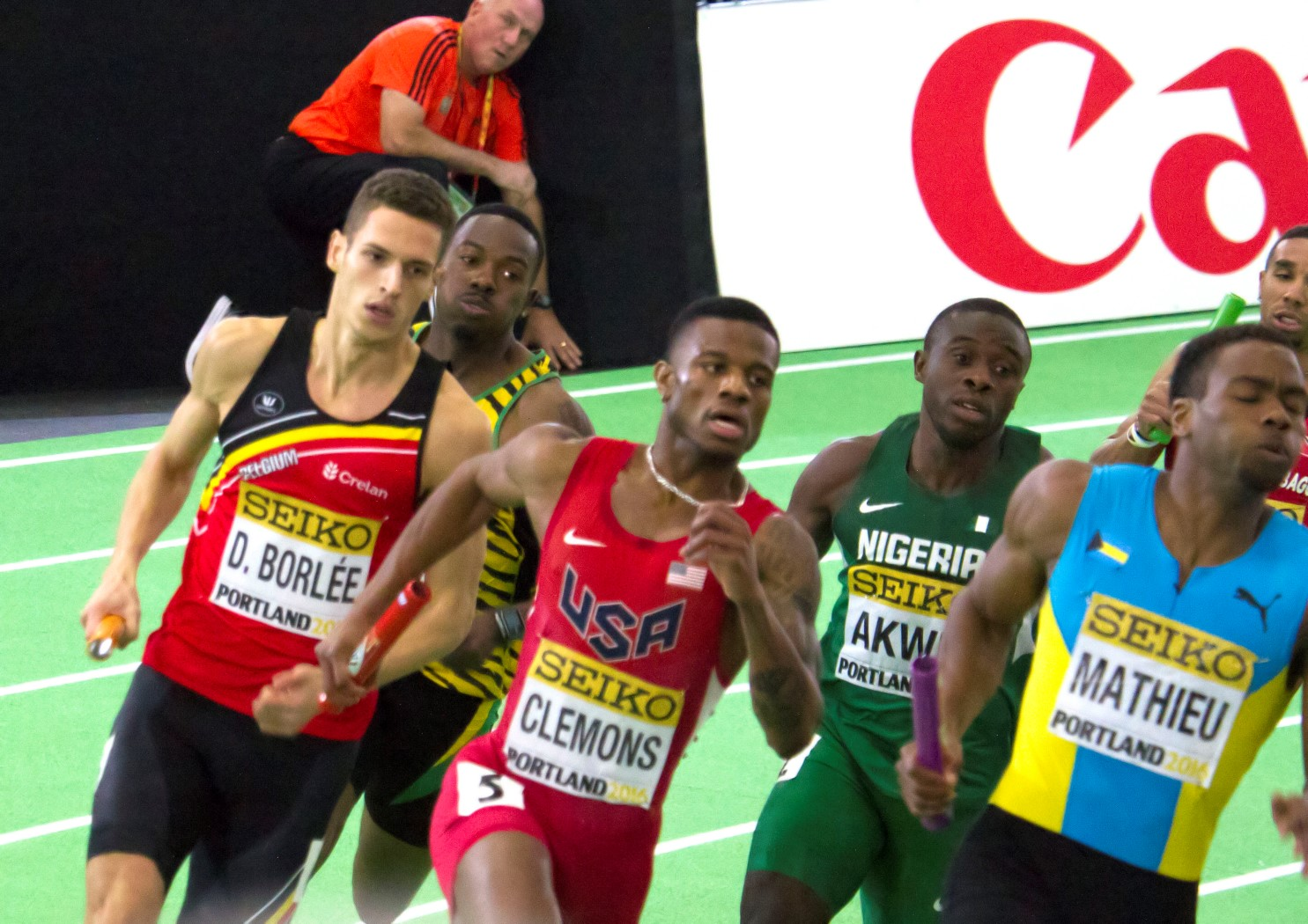 5229 dylan borlee finale 4x400m